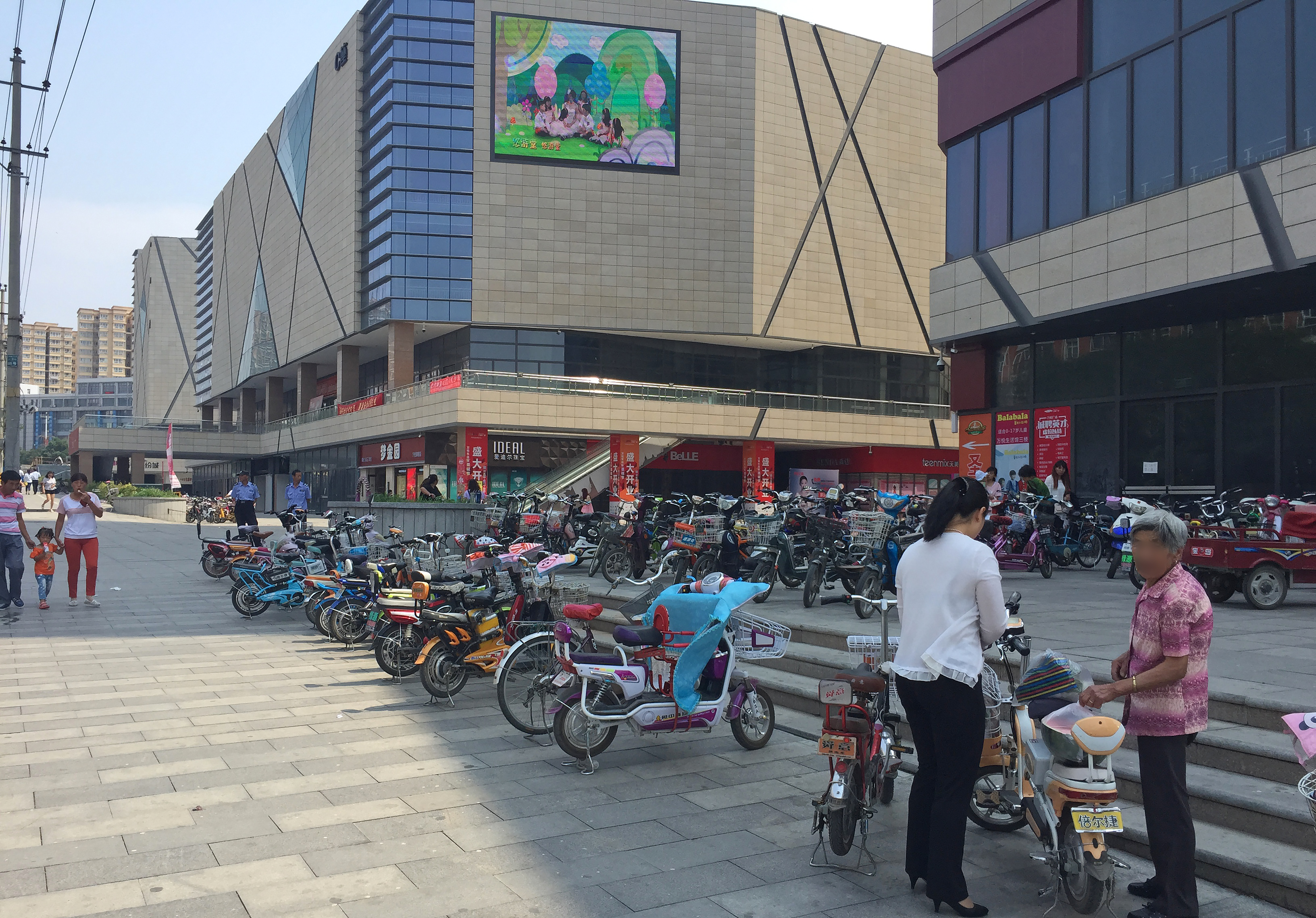 Here, a massive shopping centre.